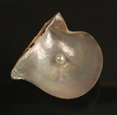 Akoya pearl,108,07Kb,409px × 403px